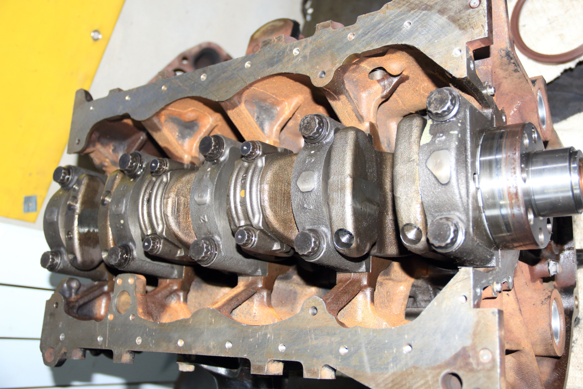 Crankshaft of Toyota 1KD-FTV engine